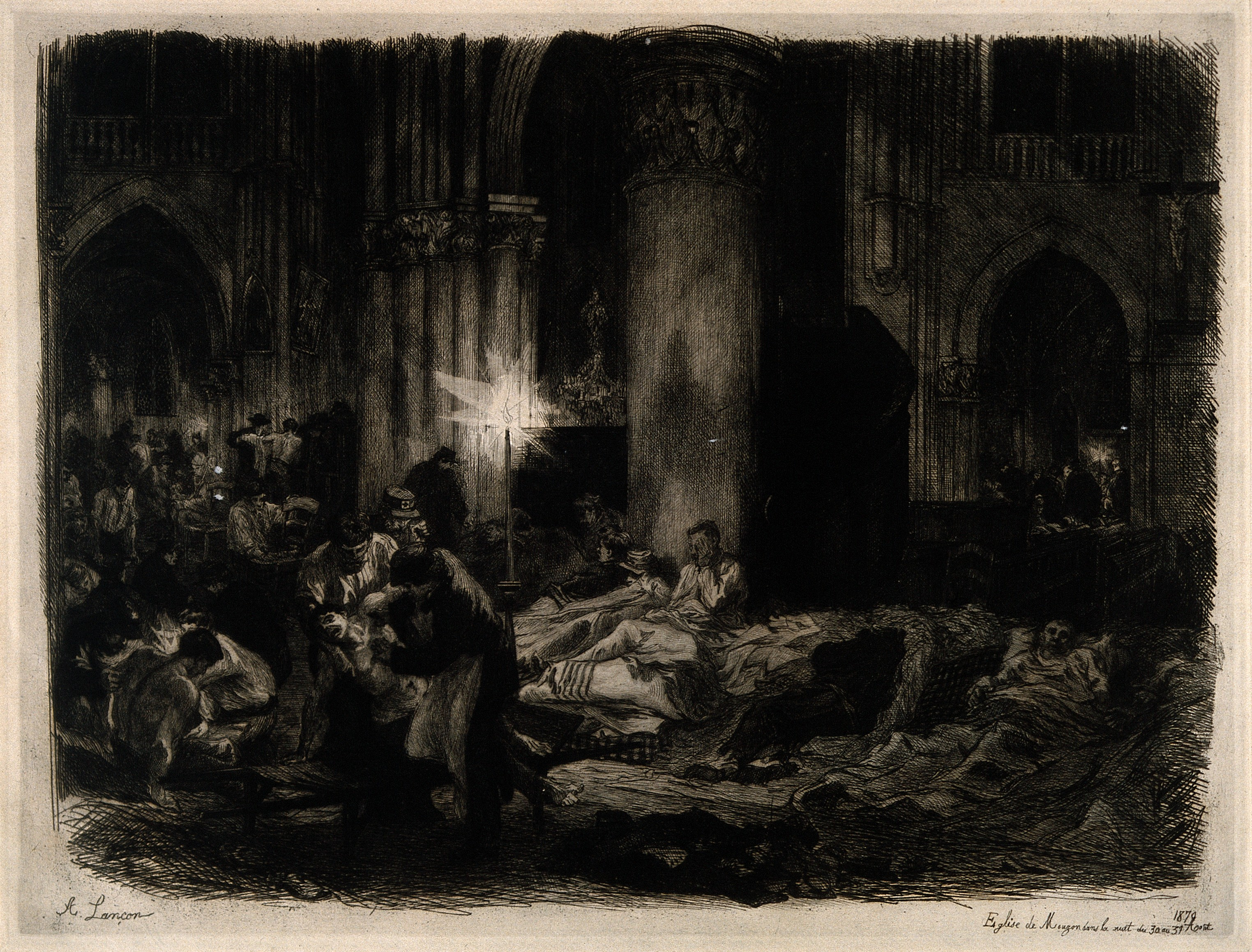 Franco-Prussian War: wounded soldiers being treated in the Eglise de Mouzon. Etching by A. Lancon, 1870. Iconographic Collections Keywords: Auguste André Lançon